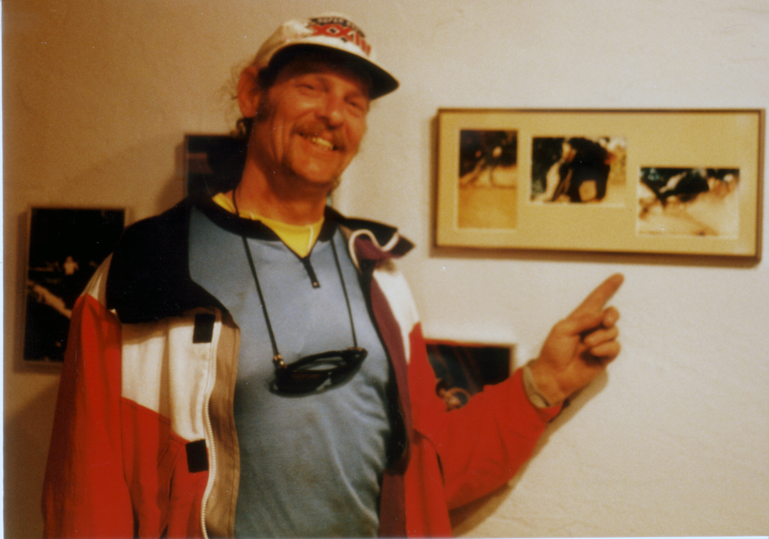 Charlie Kelly was inducted into the Mountain Bike Museum & Hall of Fame of Crested Butte in 1988. He returned again in 1989 for Fat Tire Bike Week